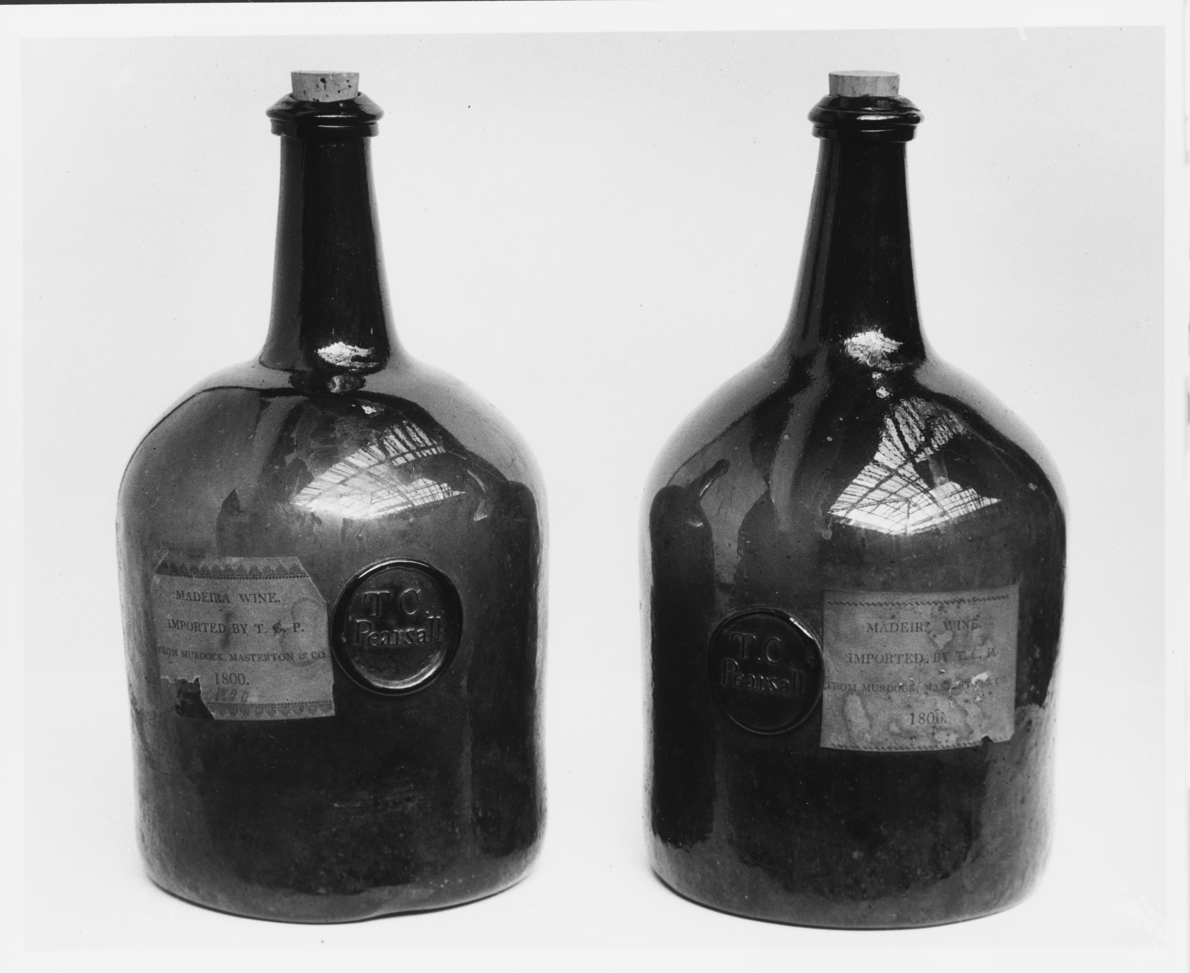 British, probably; Wine bottle; Glass